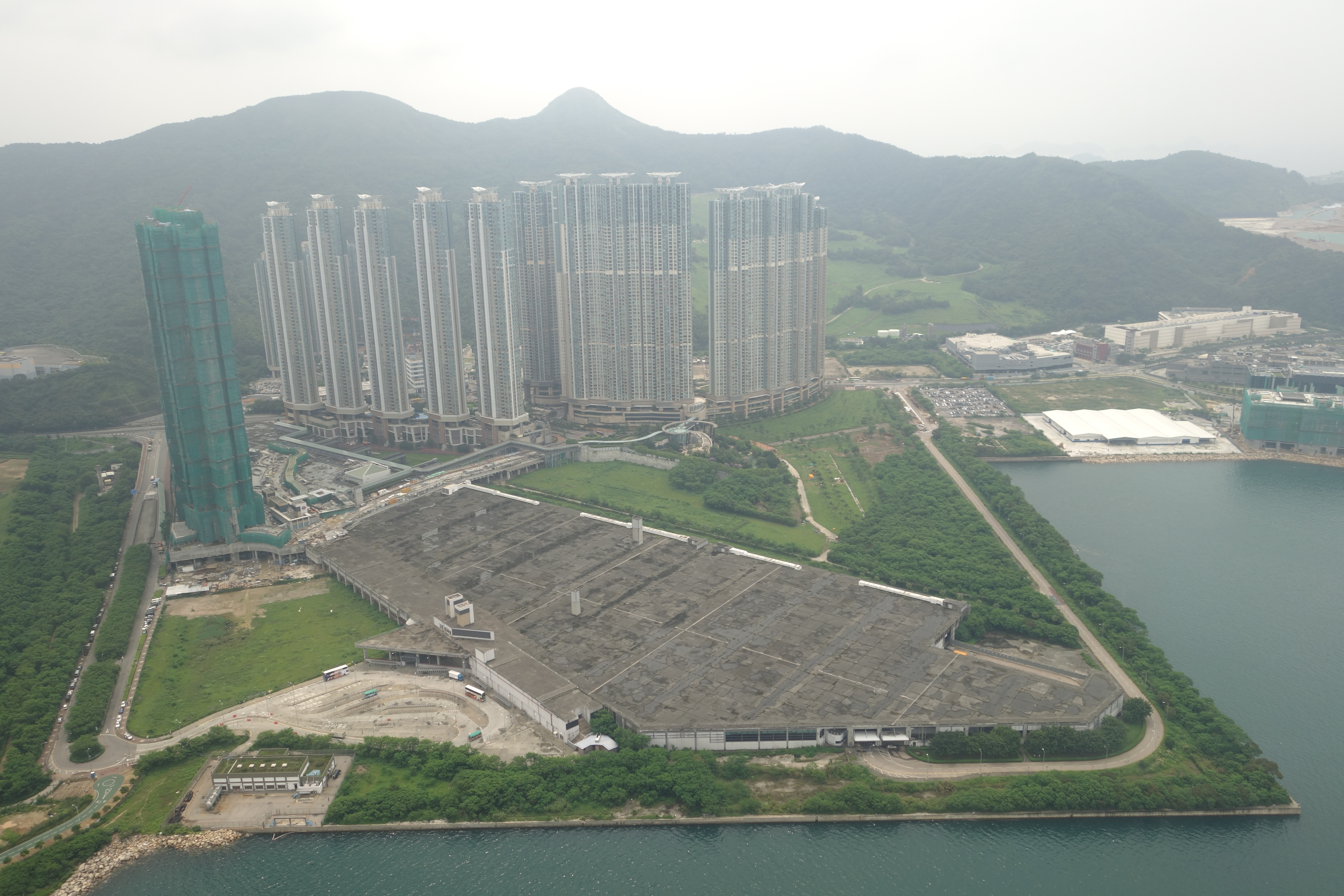 An aerial view of LOHAS Park, Tseung Kwan O